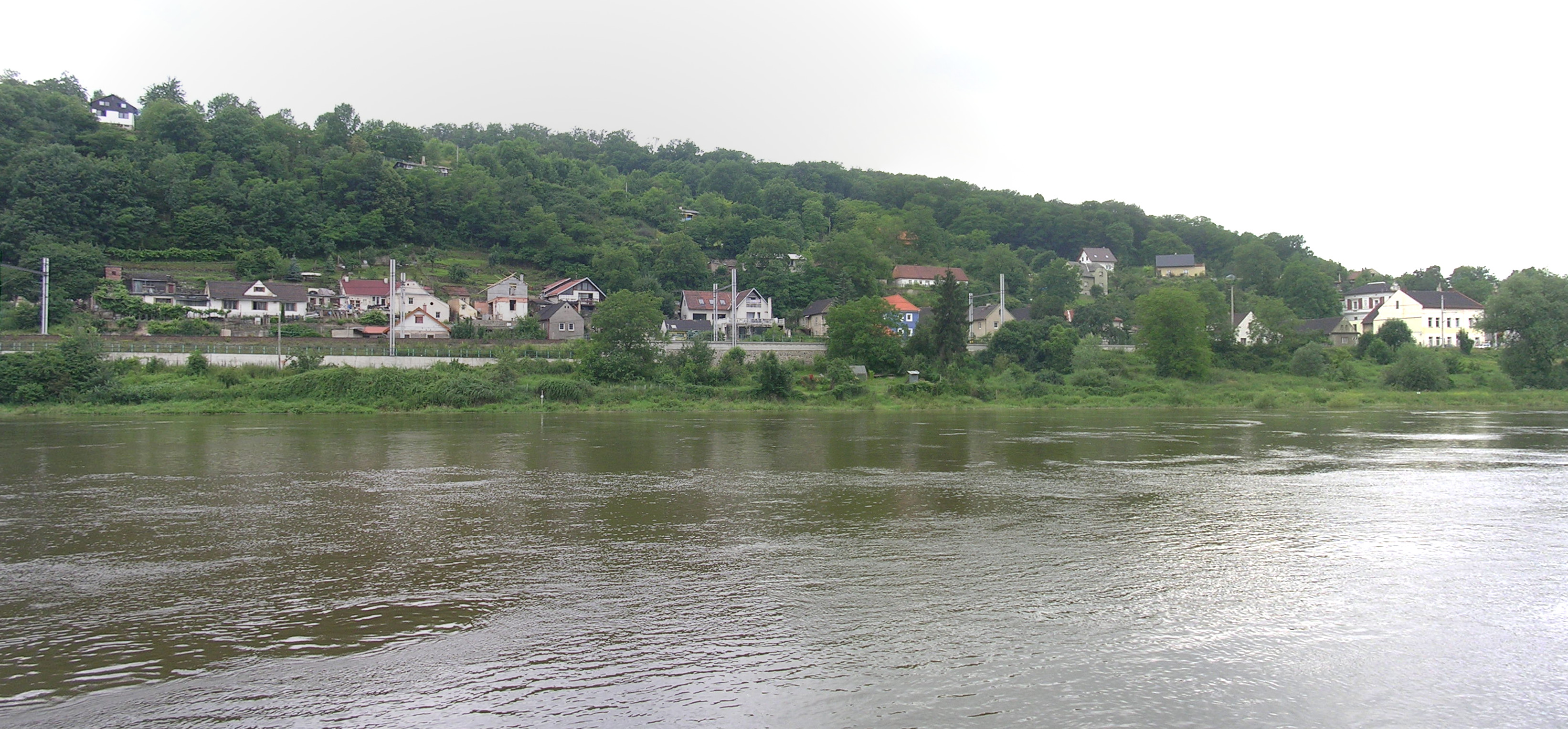 Dolany, Mělník District, Central Bohemian Region, the Czech Republic. - Google Maps - Google Earth